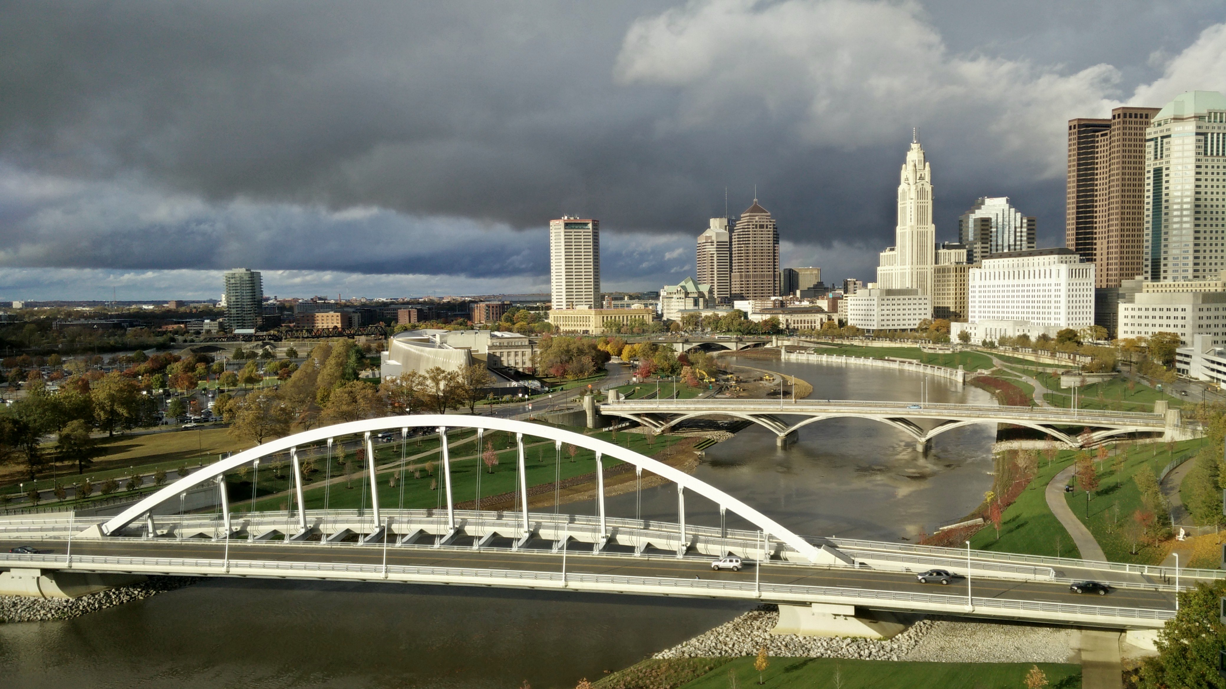 Columbus Scioto Mile